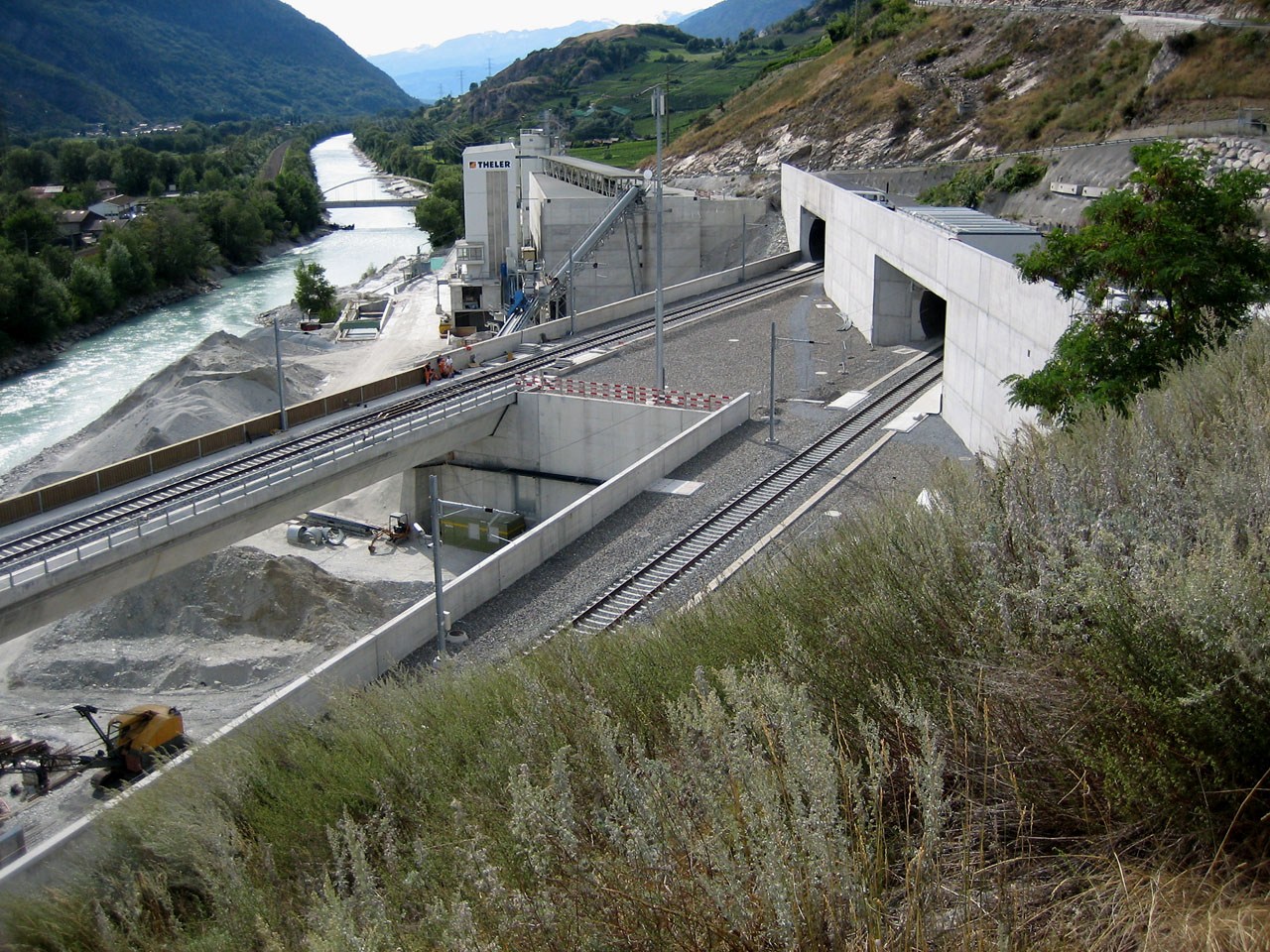 South portal of new Loetschberg Base Tunnel (LBT) near Raron, Canton Valais; LBT is part of the Swiss Alptransit project